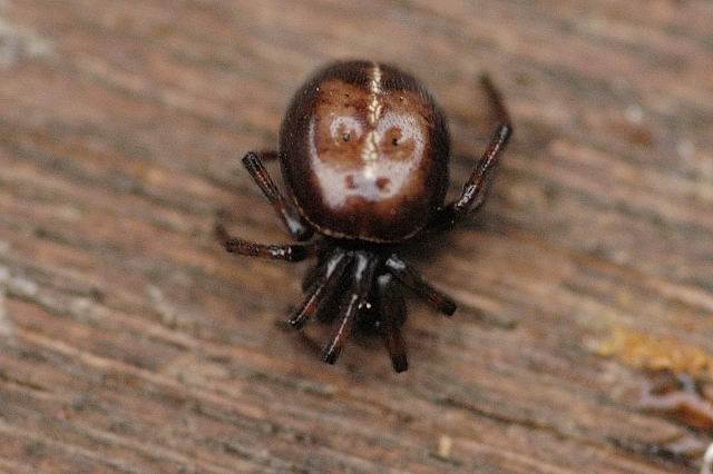 female Steatoda bipunctata from Commanster, Belgian High Ardennes .